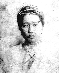 A photo of Josefa Gustilio Edralin, mother of Philippine President Ferdinand Edralin Marcos.